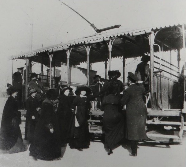 Tram in Sevastopol